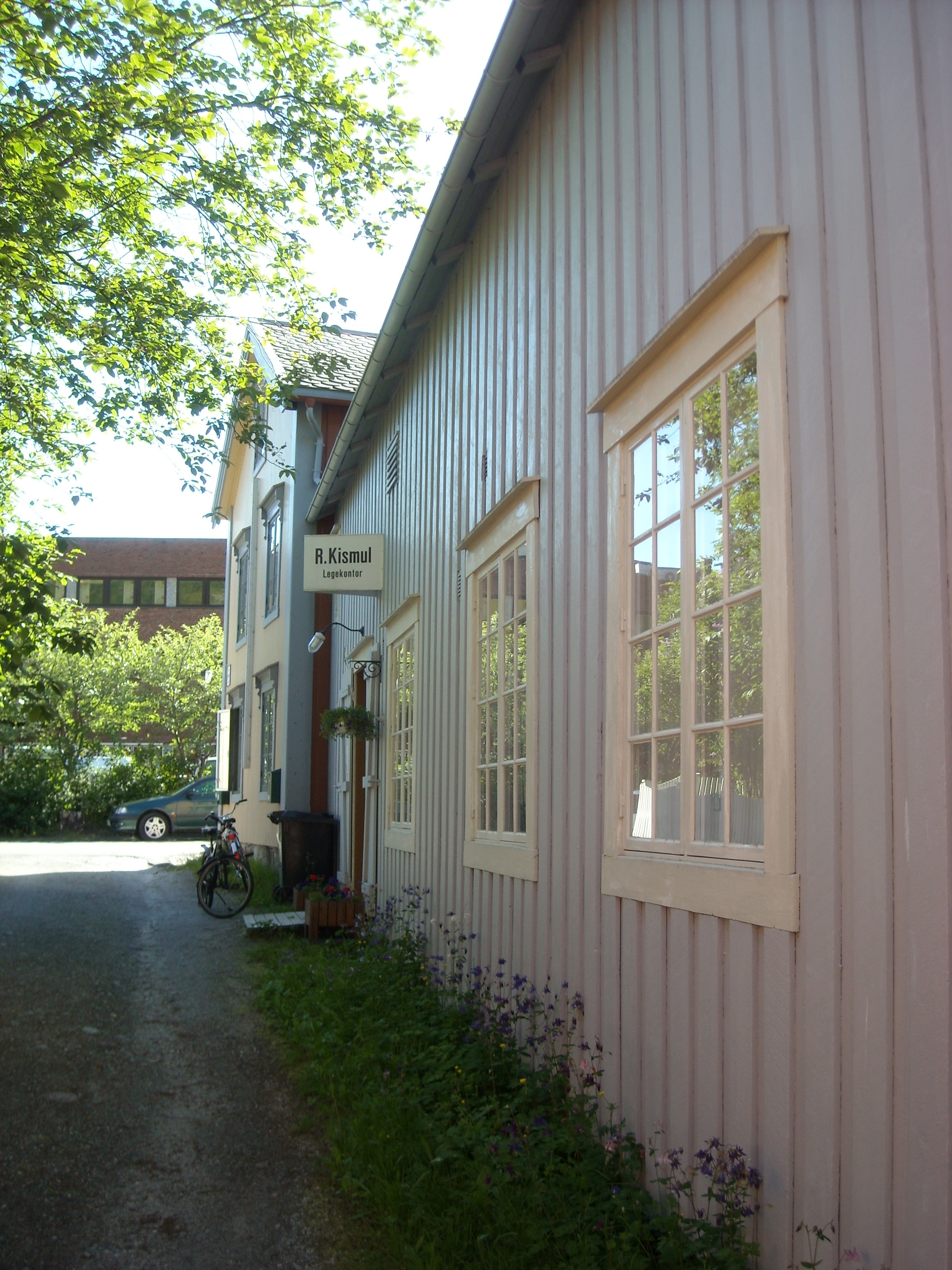 Sjøgata, Byflata in Mosjøen, Norway. Old building.